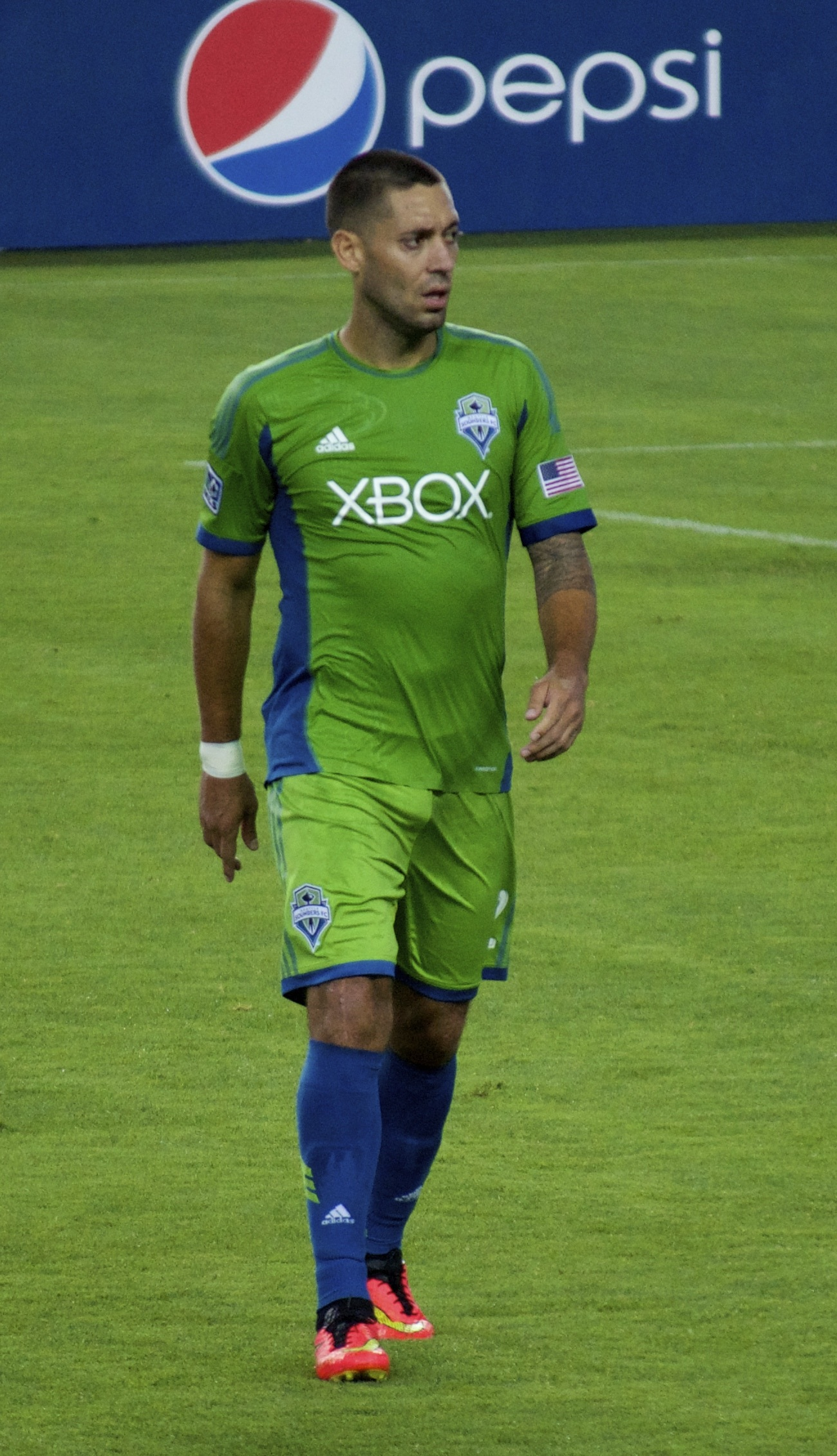 Clint Dempsey, Levi Stadium inaugural game, Seattle Sounders vs San Jose Earthquakes, Santa Clara, California